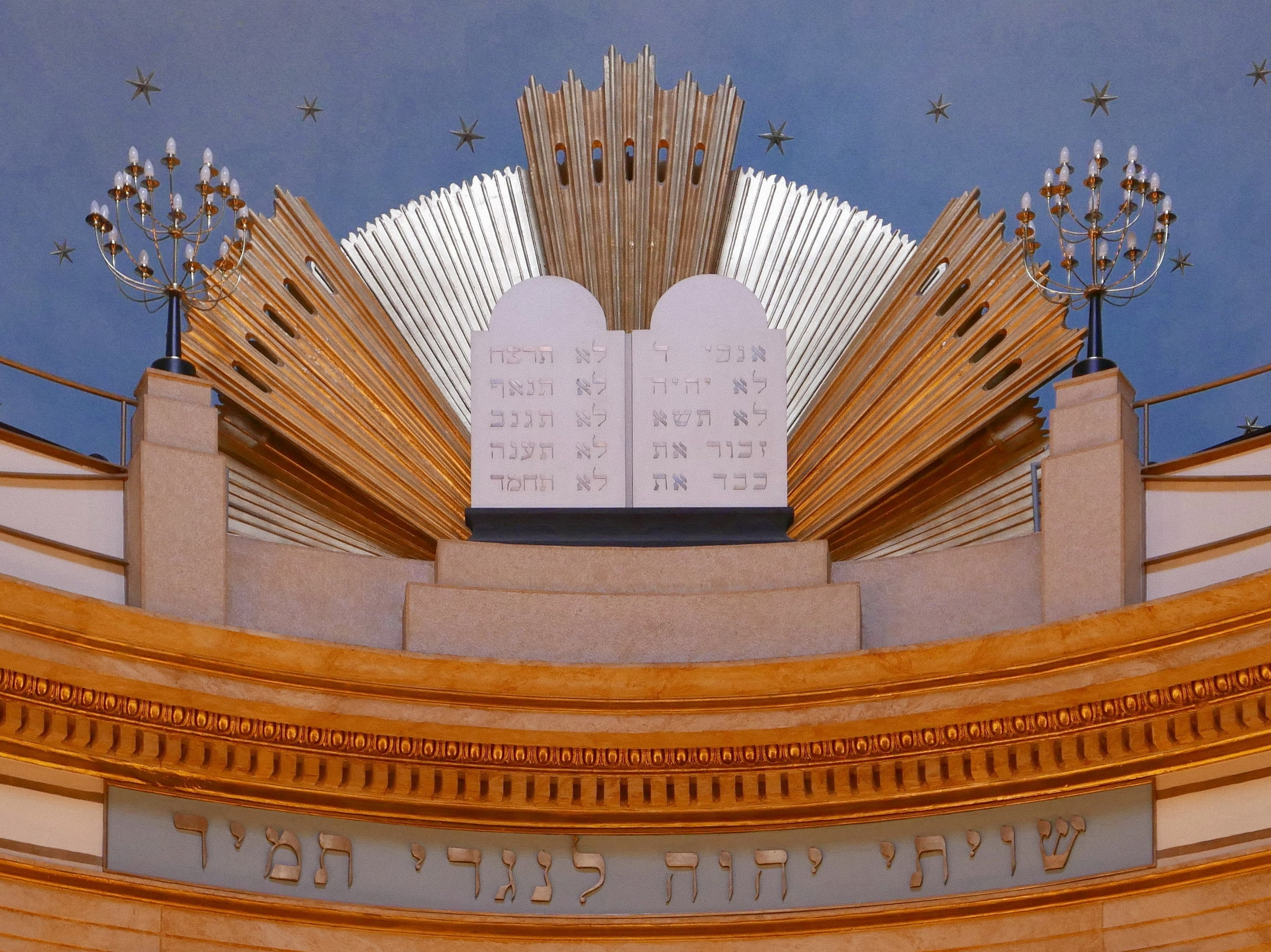 Plates of the decalogue, Stadttempel Vienna, Austria